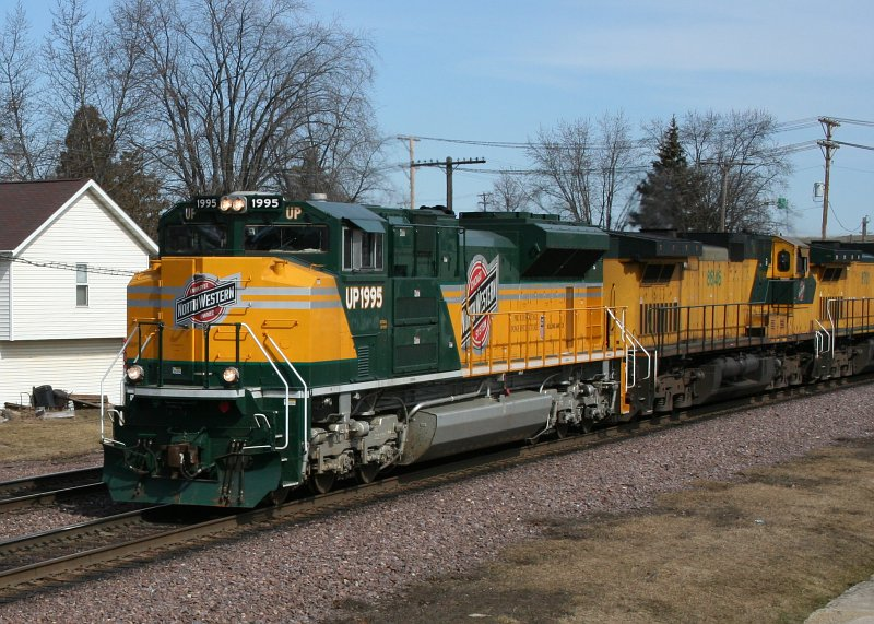 UP 1995 leads the last two unrepainted CNW locomotives westbound through Rochelle Railroad Park.